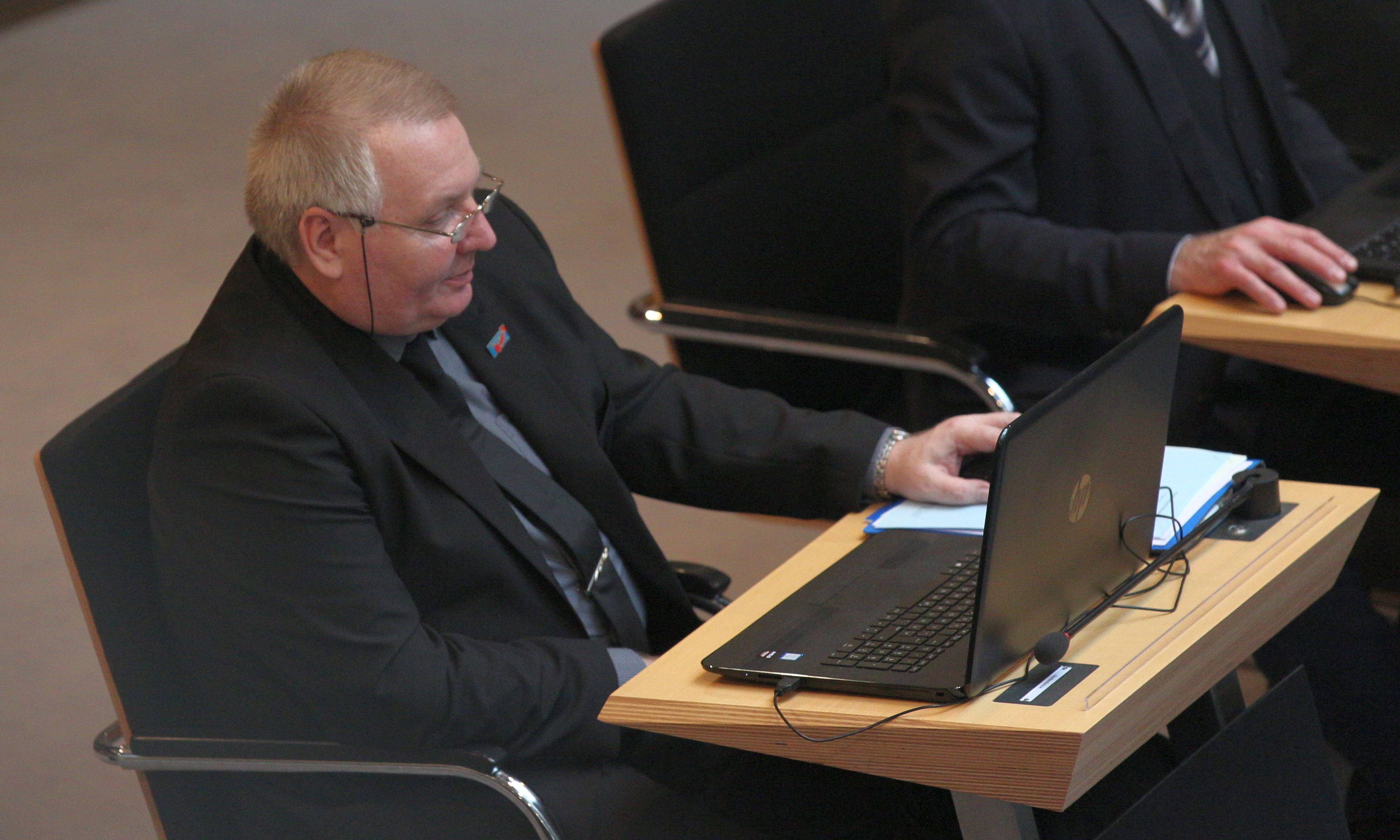 Kay Nerstheimer (AfD)